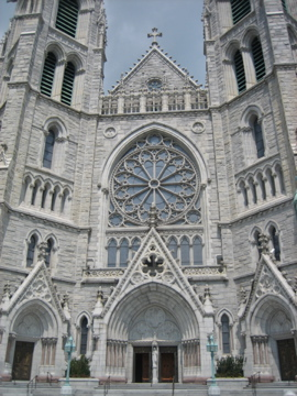 Looking north from Victoria Avenue, Newark